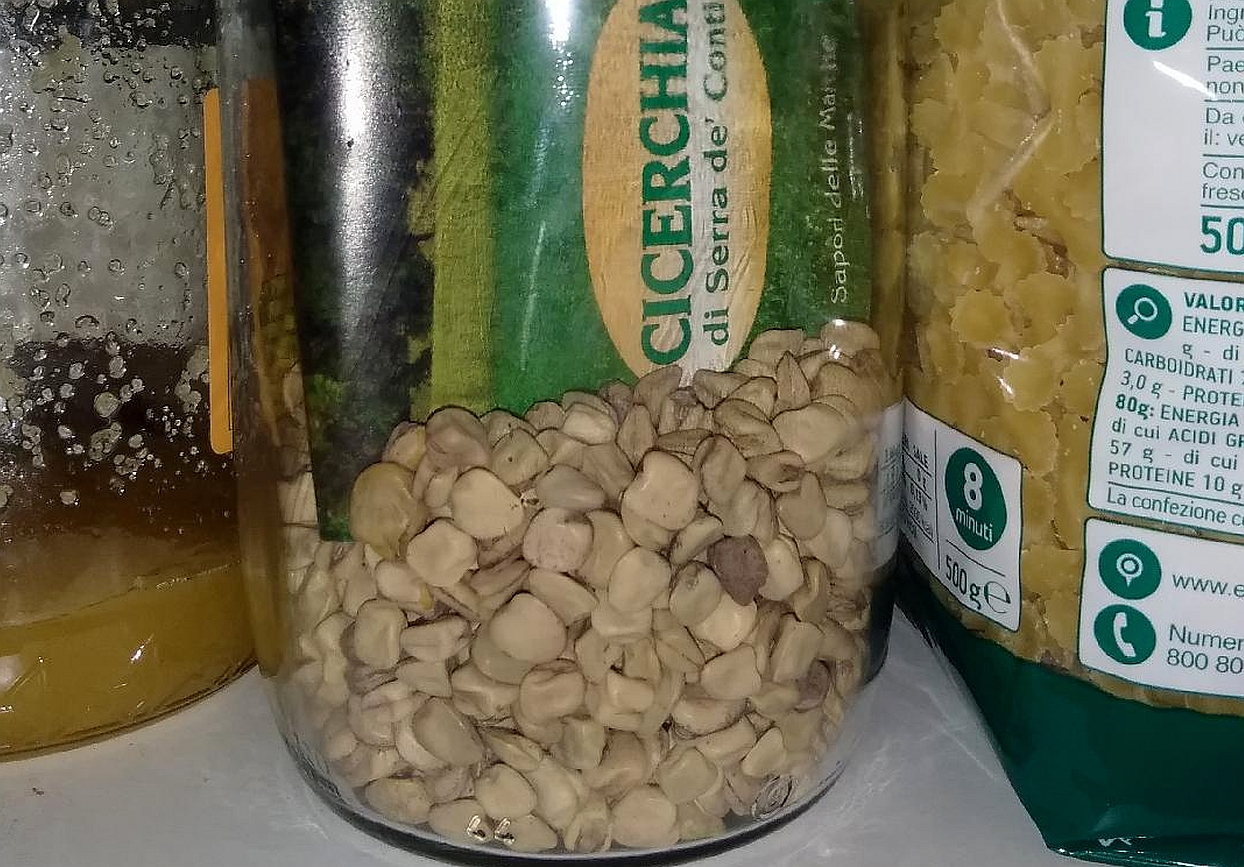 Cicerchia di Serra de' Conti (grass pea of Serra de' Conti) Ark of Taste food from Italy